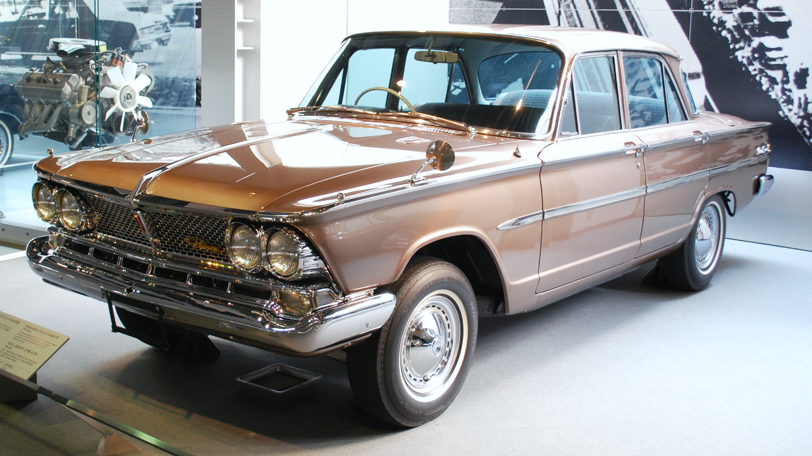 2nd generation Prince_Gloria Super6 Model41 (1963 - 1967)